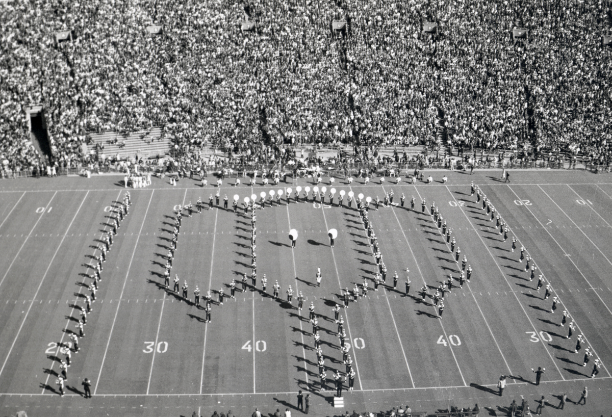 Wisconsin vs. Northwestern game. The UW Band forms the shape of elephant. n: October 1972. Madison, Wisconsin. Image ID# S06295. For more information about this image or UW-Madison campus history, .